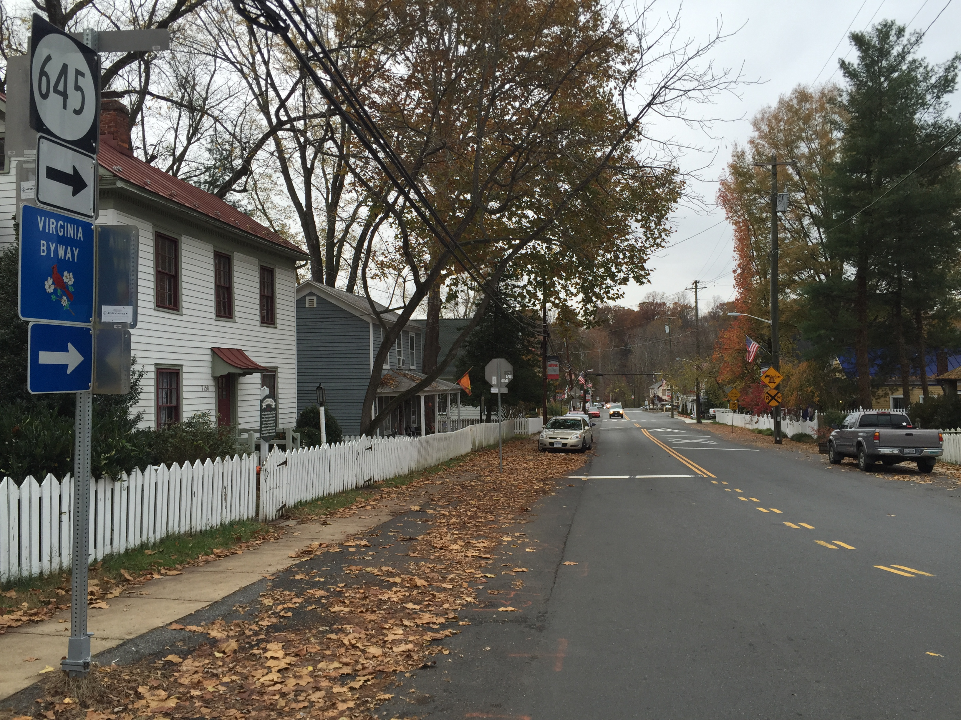 View northwest along Main Street (Virginia State Secondary Route 645) at School Street in Clifton, Fairfax County, Virginia